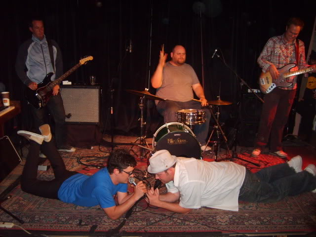 Hip hop group Bad Credit performing in San Diego on March 14, 2008.